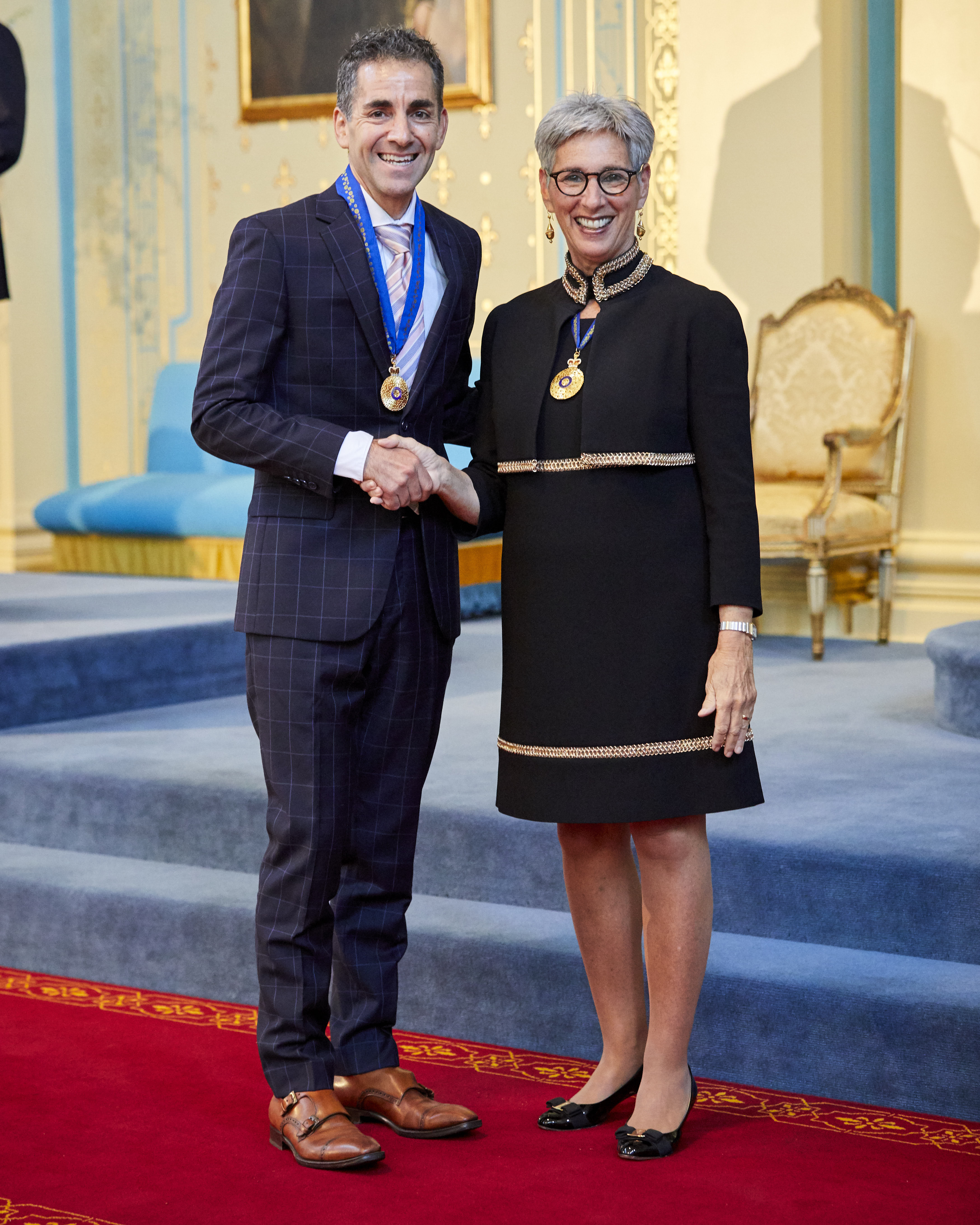 The Honourable Linda Dessau AC, Governor of Victoria, appointing Simon J. Costa AO to the Order of Australia. April 2, 2019.